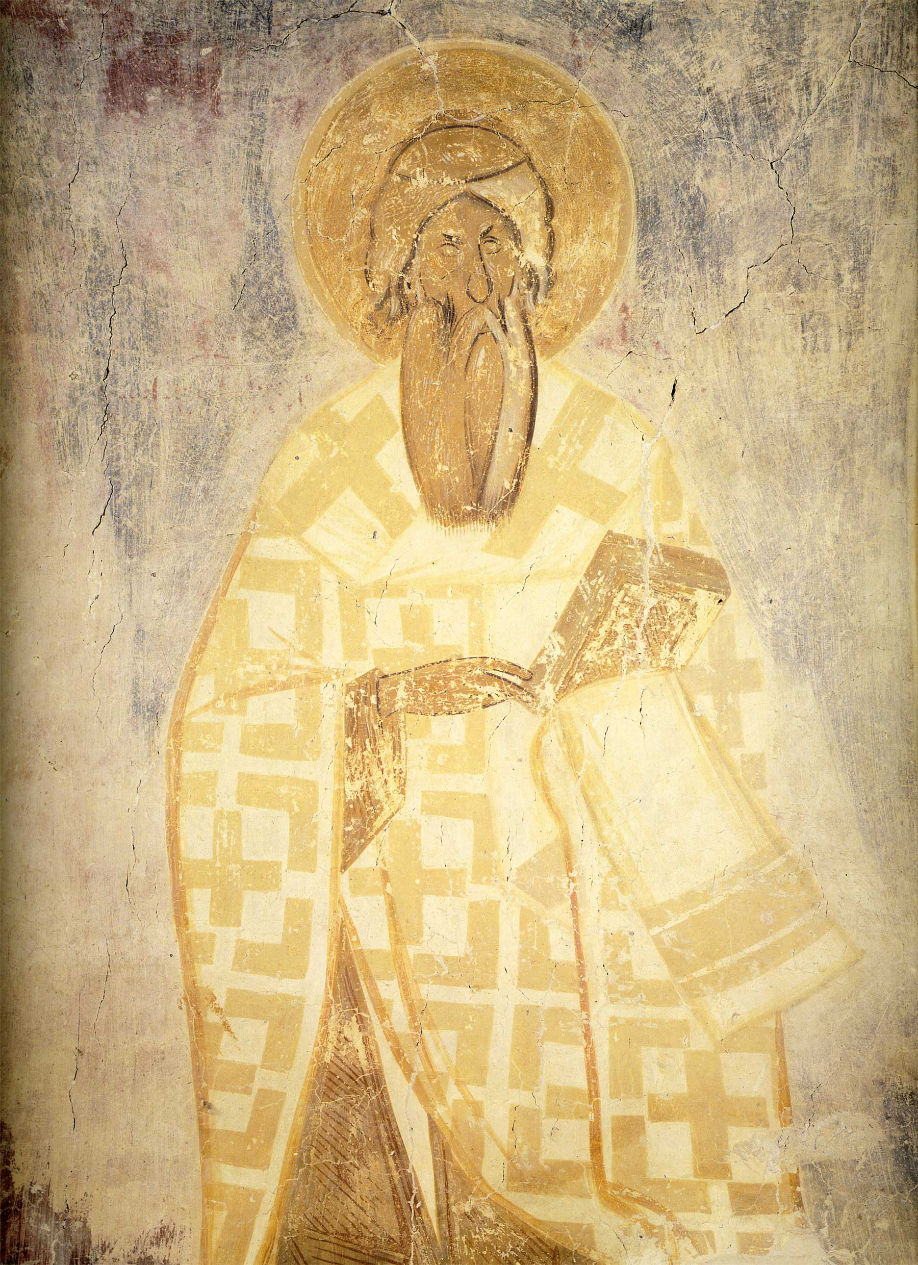 Saint Anthimos from Nicomedia